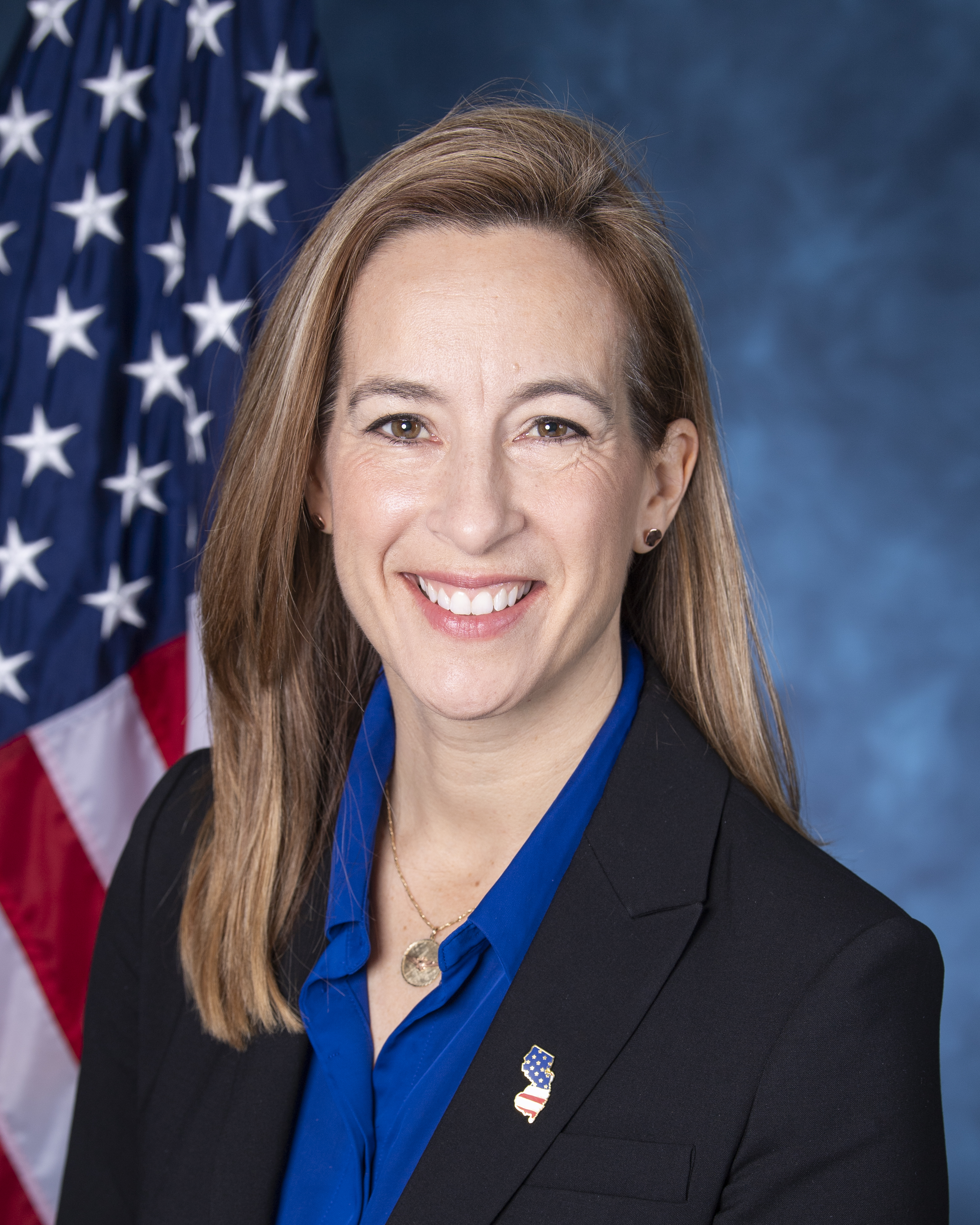 The official headshot of Rep. Mikie Sherrill (D-NJ)